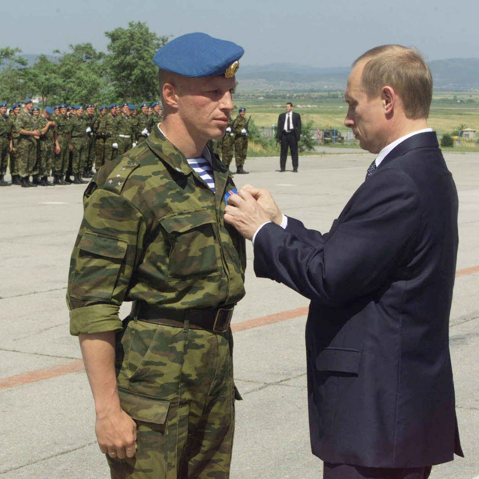 PRISTINA, KOSOVO. President Putin presenting government awards to Russian peacekeepers. Mr Putin handing the Order of Military Merit to Captain Konstantin Kharlamov.